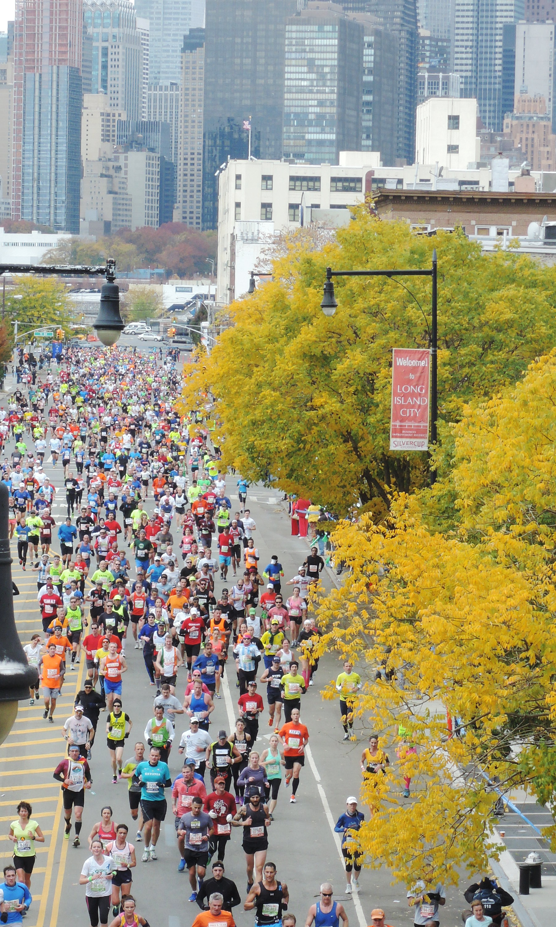 Looking west from northern part of Court Square station as runners approach on a mostly cloudy Marathon afternoon.